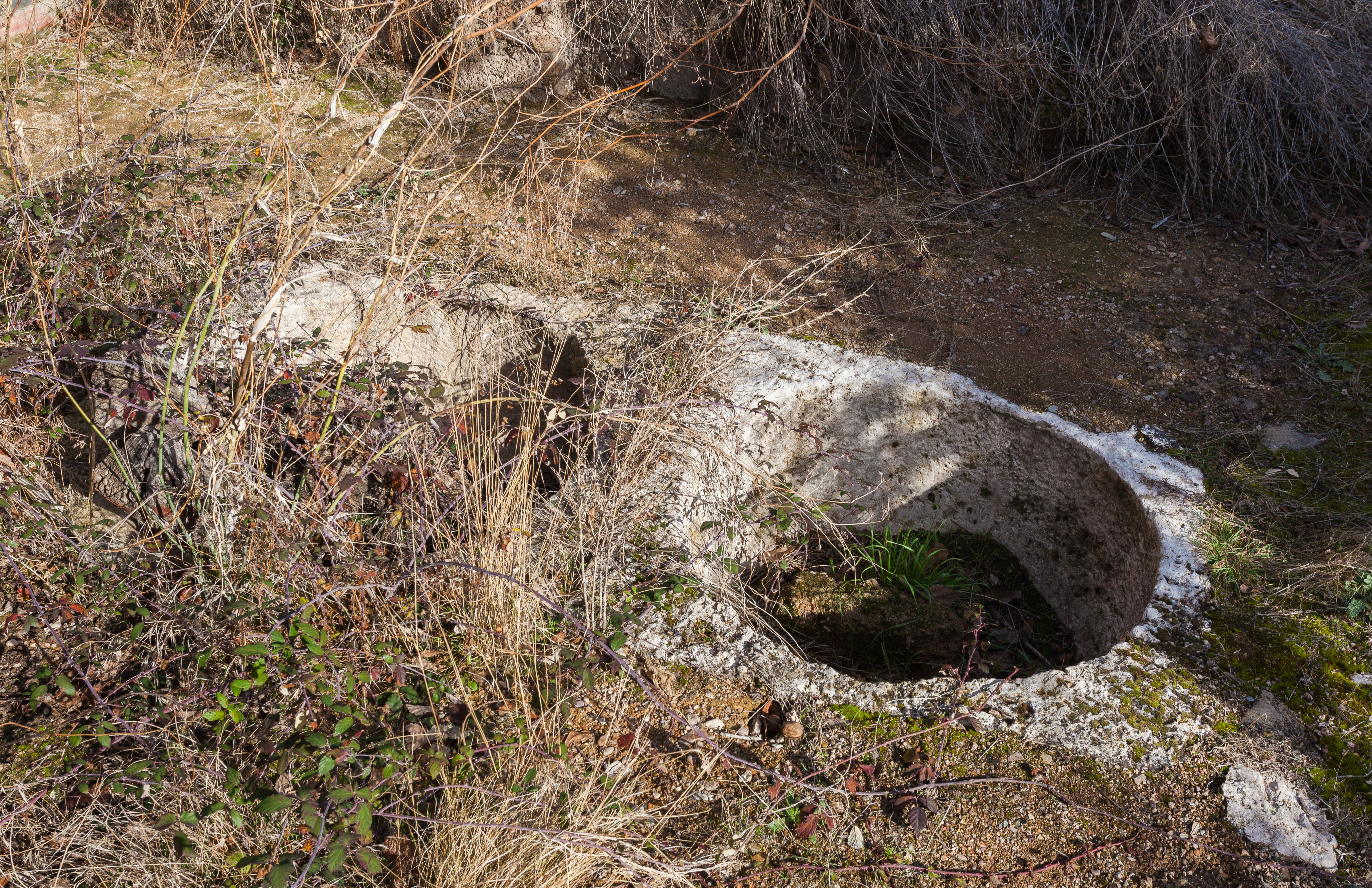 Gun powder mill, Villafeliche, Zaragoza, Spain